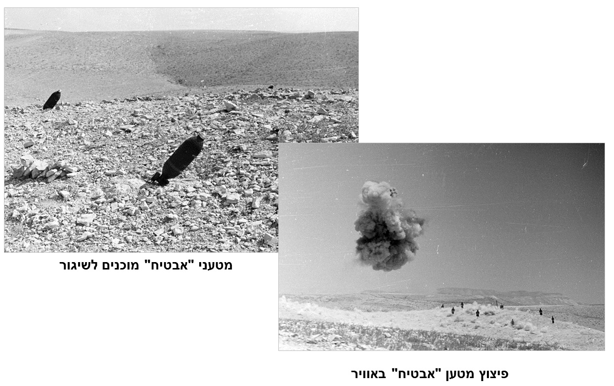 Avatiah rocket